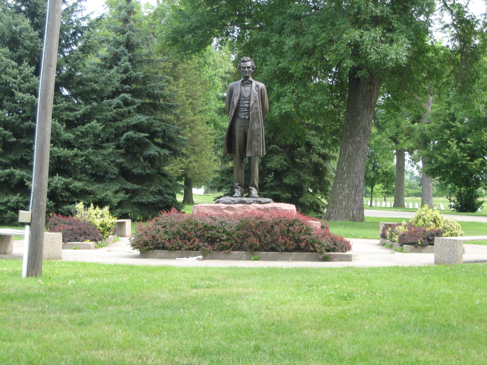 Lincoln the Debater Statue, Taylor Park, Freeport, Illinois, USA.